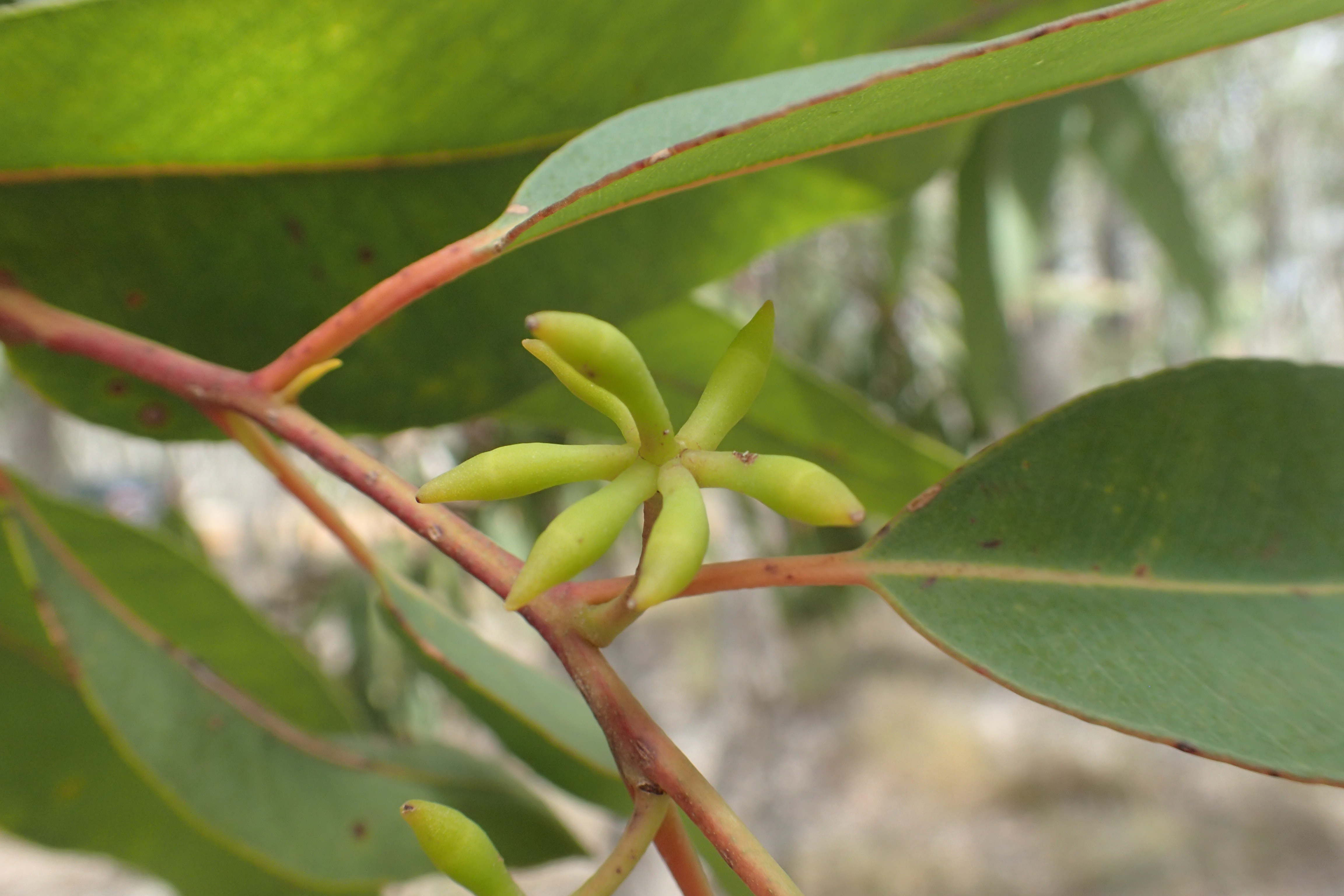 Flower buds of Eucalyptus patens in Helms Arboretum, north of Esperance, W.A.